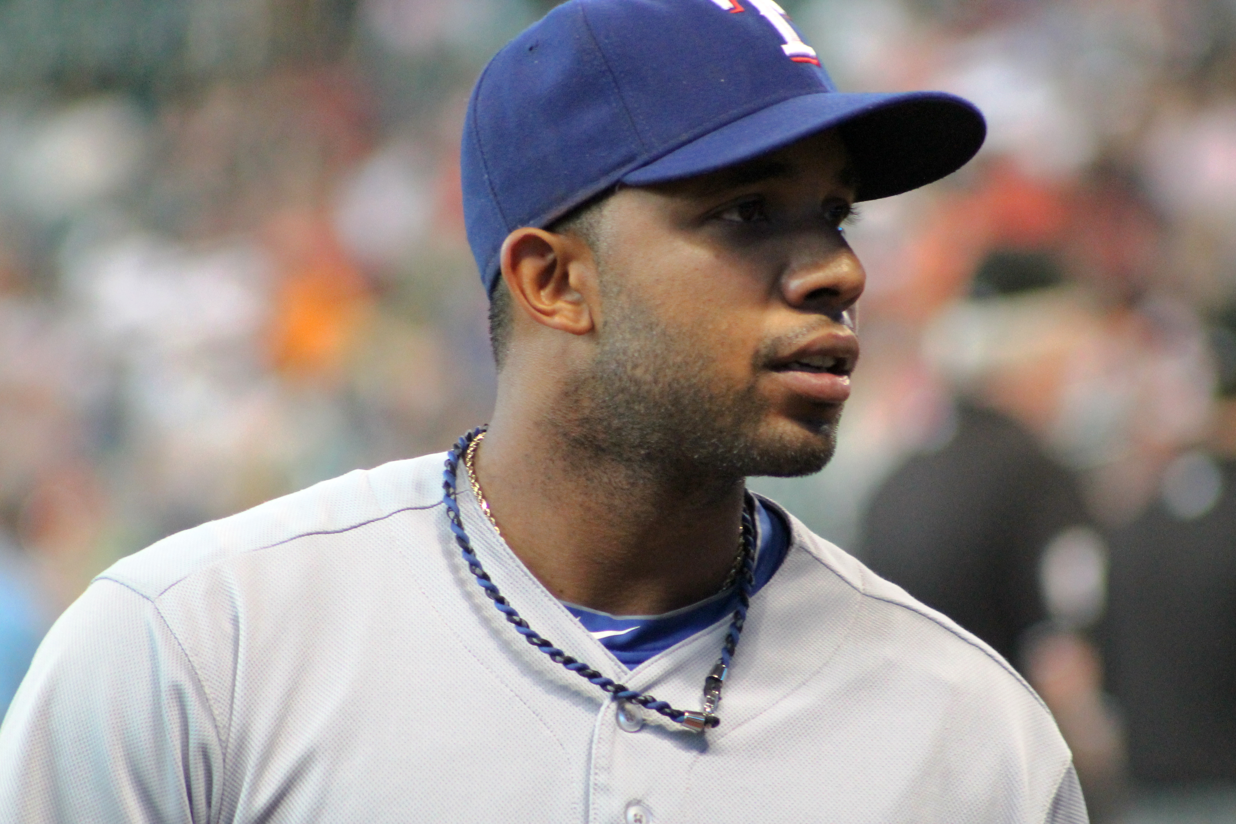 Professional baseball player Elvis Andrus at Minute Maid Park in August 2014.